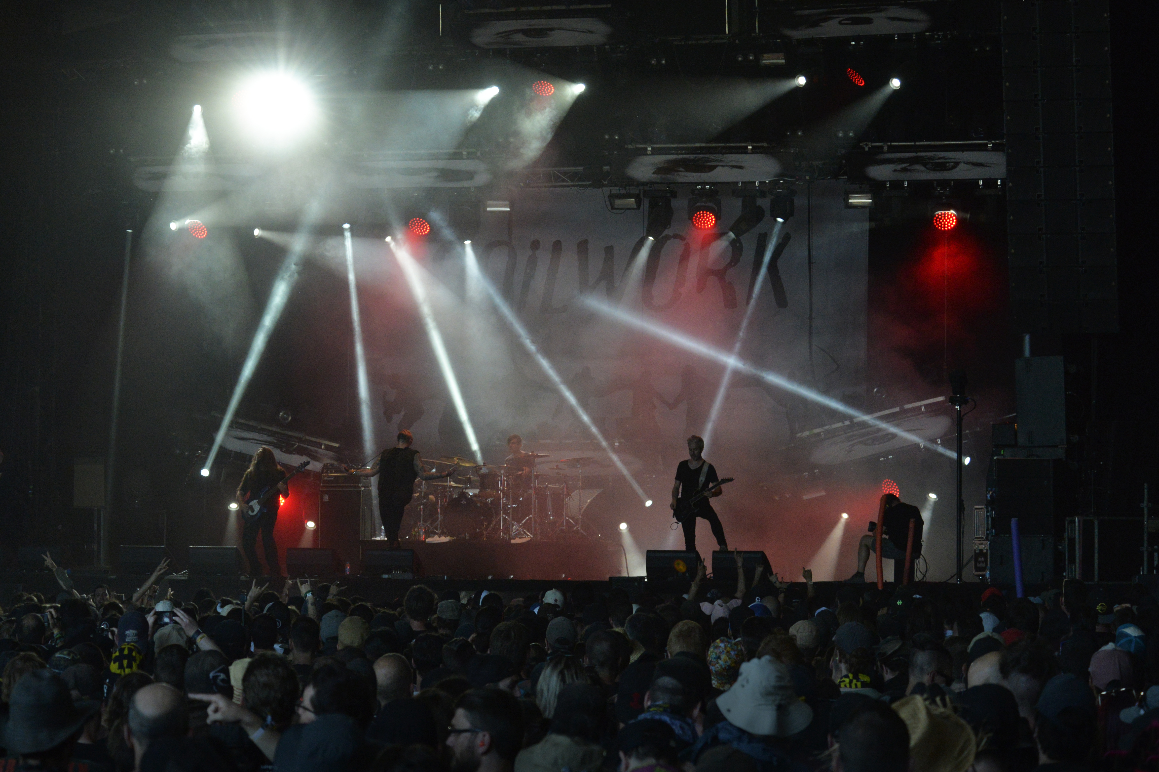 Soilwork show at 2017 Hellfest, France.